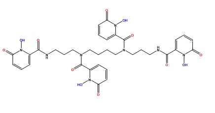 Figure 2